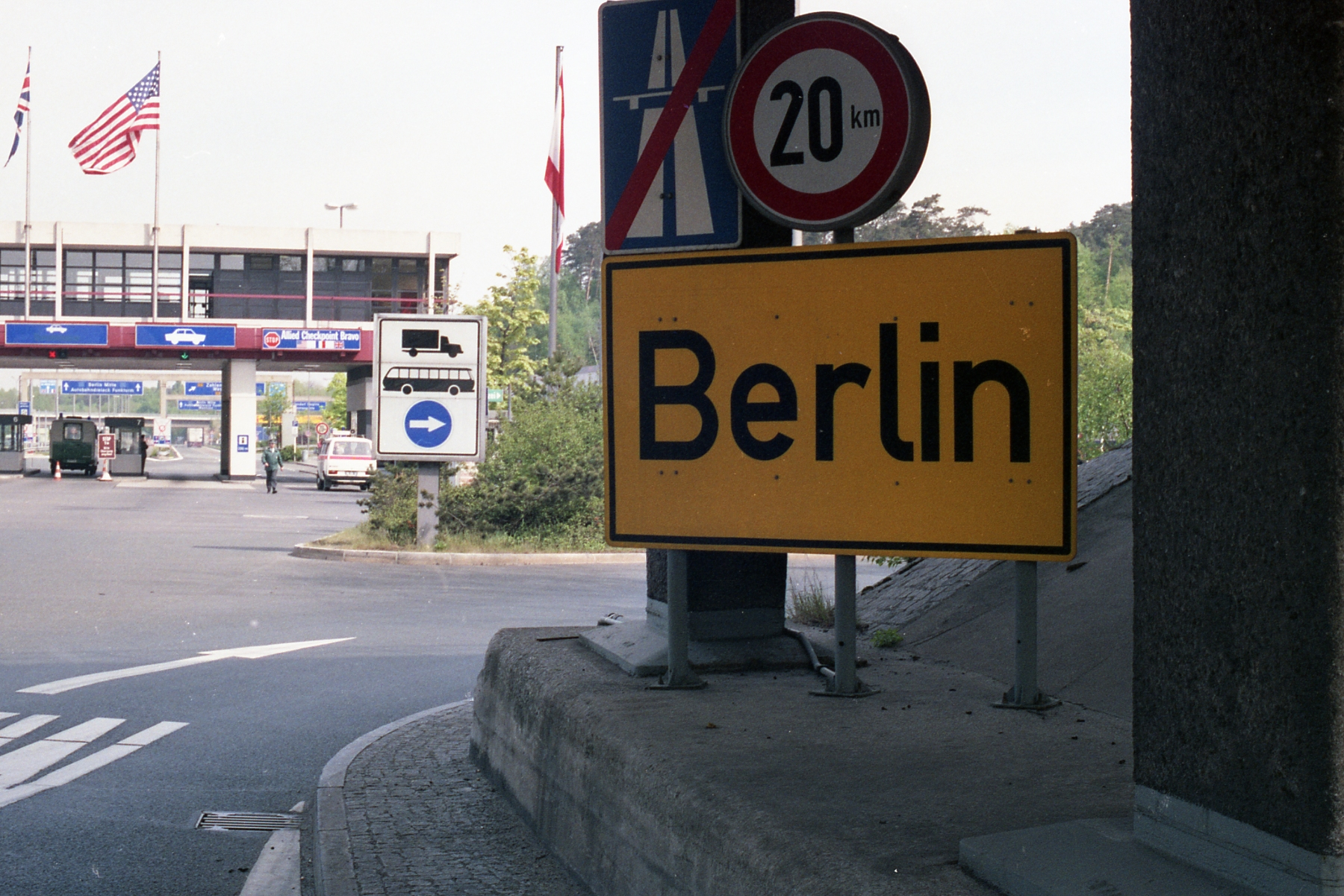 Town Sign Berlin Drewitz